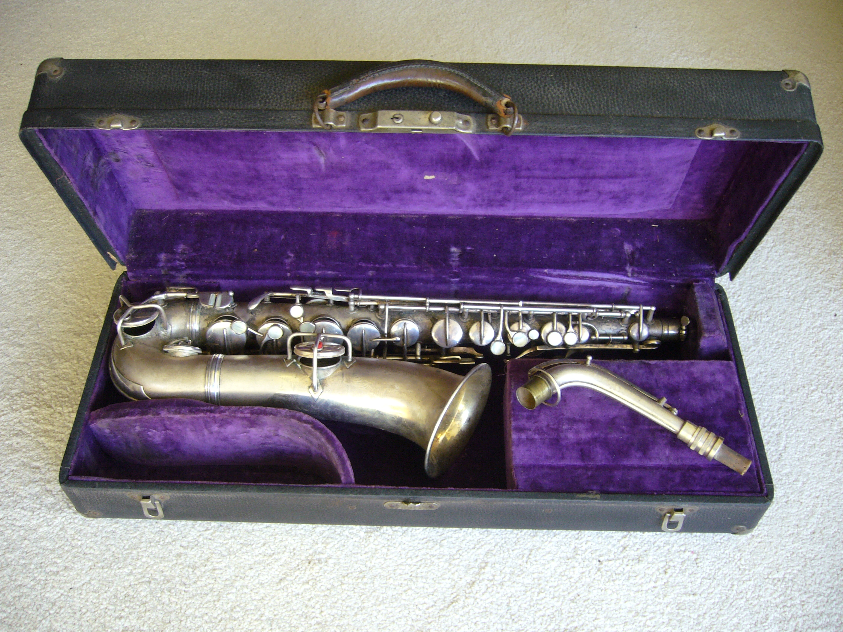 A "straight-necked" Conn C melody saxophone - model "8M" (New Wonder Series 1) with a serial number which dates manufacture to 1922. This instrument has rolled tone holes, a Conn micro-tuner on the neck, and is silver-plated. Note that this saxophone is in an unrestored state and the silver plating is tarnished.